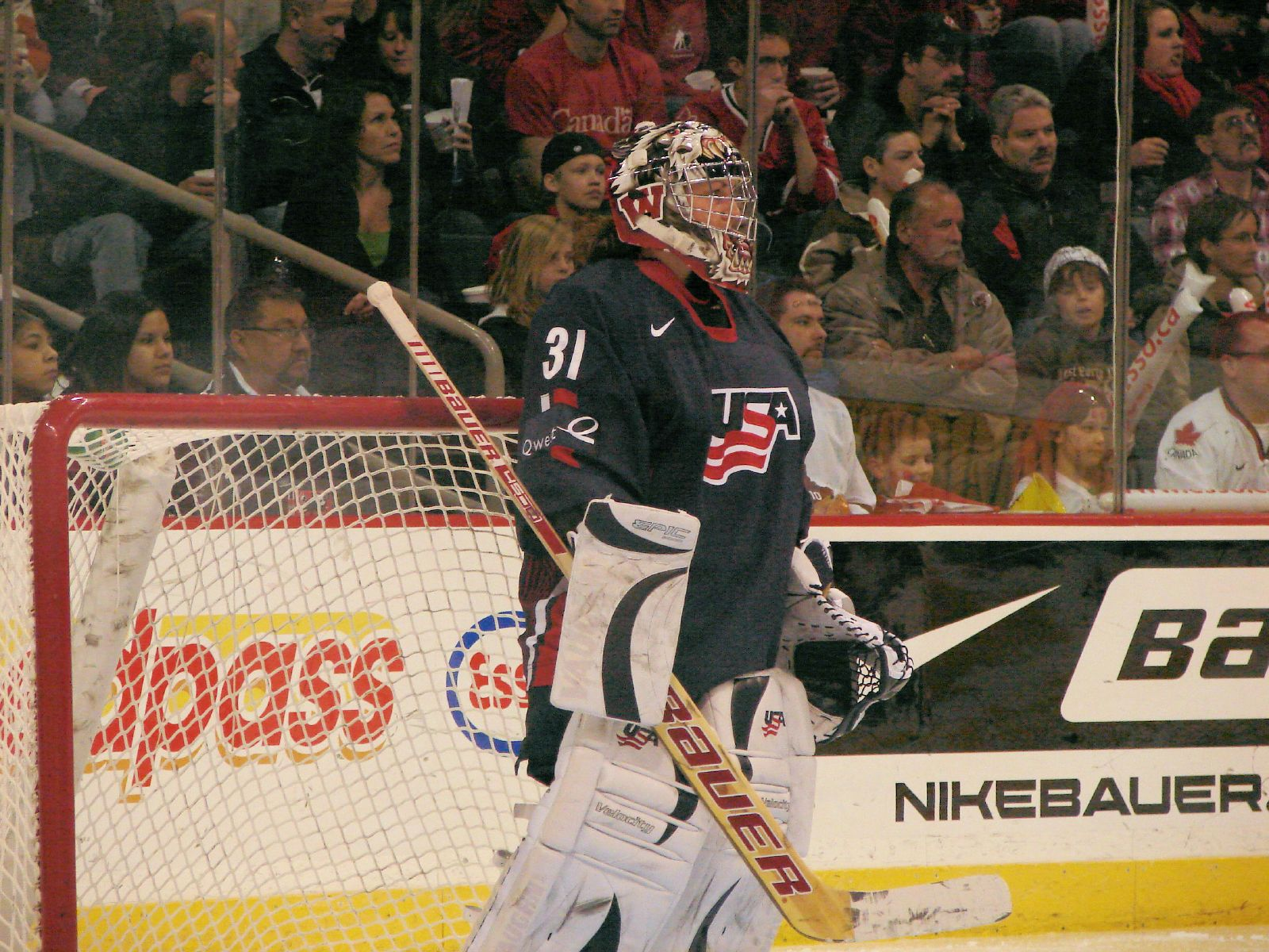 United States goaltender Jessie Vetter at the 2007 IIHF Women's World Championships.